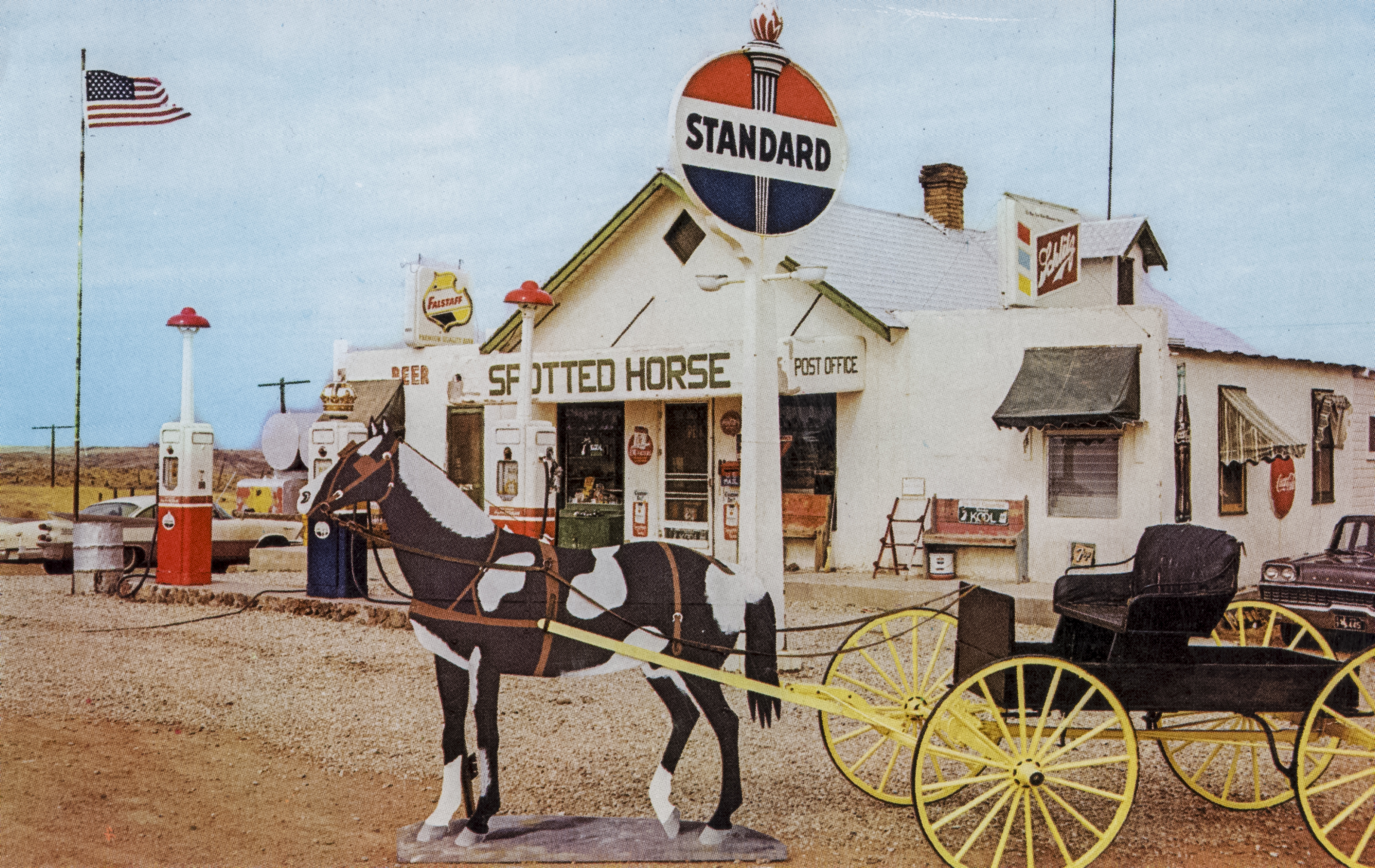 Scanned image of a post card postmarked 1960, of the store at Spotted Horse, Wyoming, USA